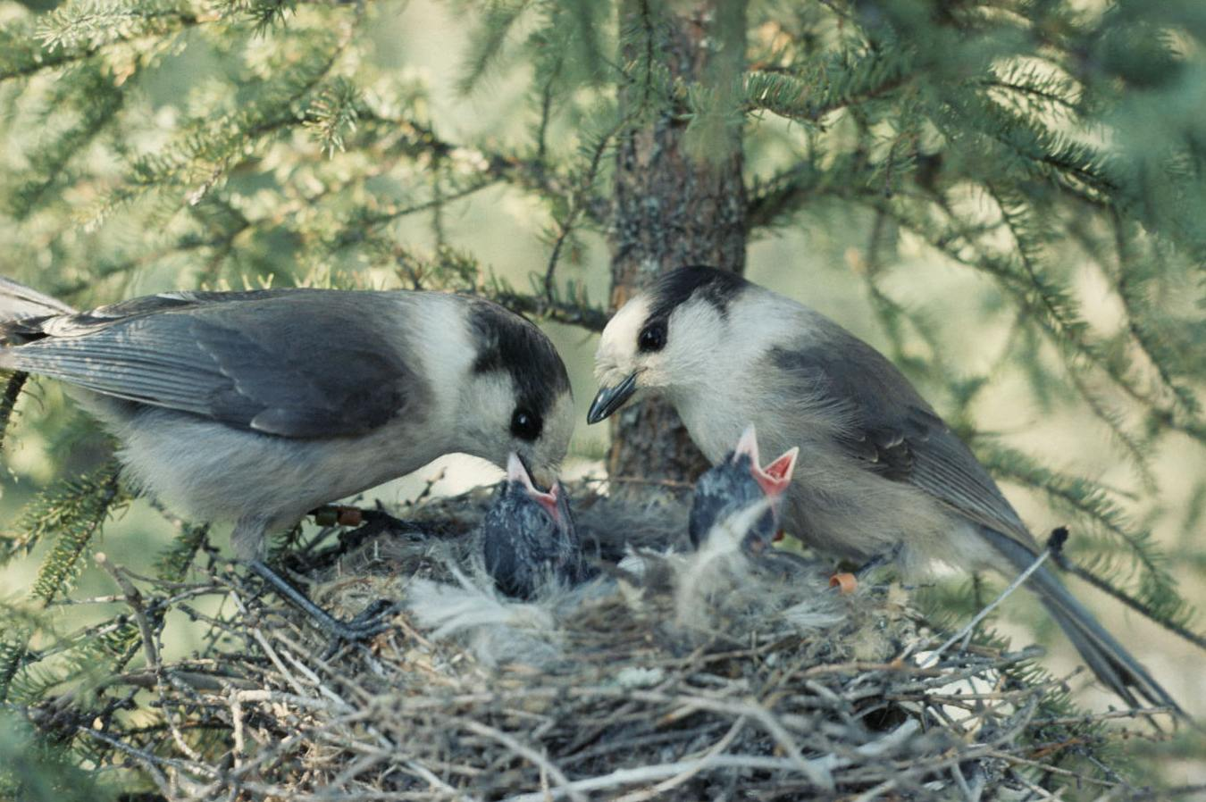 A pair of Gray Jays feeding their nestling. Algonquin Park, Ontario, Canada.